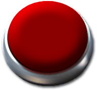 Red button.